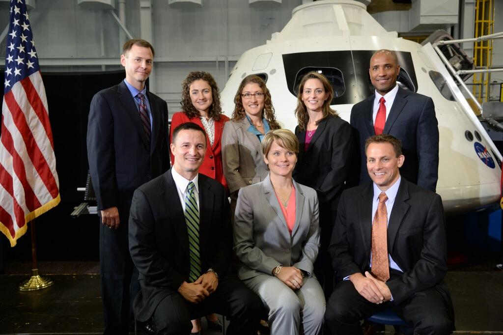 Members of NASA's 2013 astronaut class pose with an Orion capsule at NASA's Johnson Space Center in Houston on Tuesday, Aug. 20, 2013. Pictured back row, left to right: Tyler (Nick) Hague, Jessica Meir, Christina Hammock, Nicole Mann, Victor Glover. Picture front row, left to right: Andrew Morgan, Anne McClain, Josh Cassada.